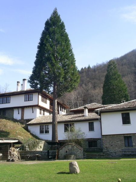 The Seven Altars Monastery; © 2006 Svilen Enev; Source: the Bulgarian Wikipedia